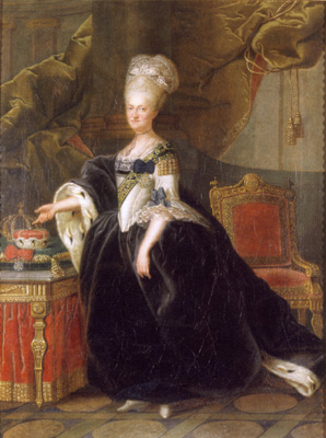 Maria Cunegonda of Saxony, Princess-Abbess of Essen and Thorn